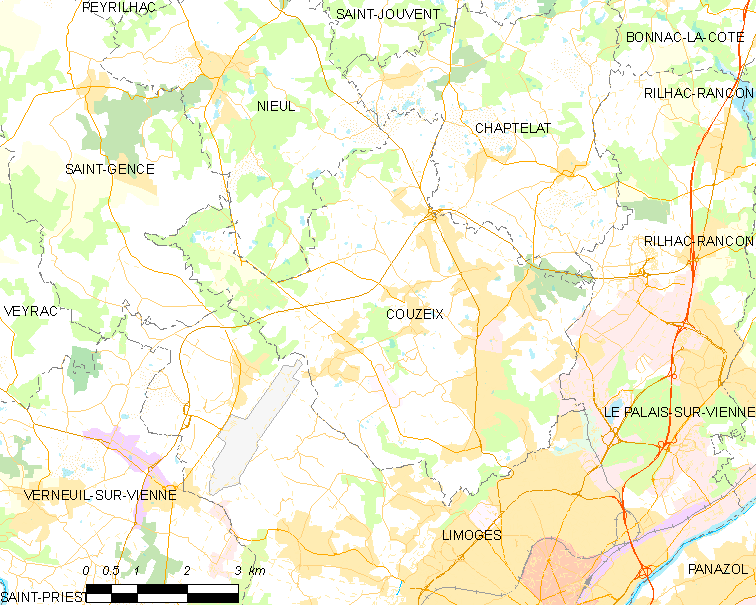 Map of French municipality Couzeix